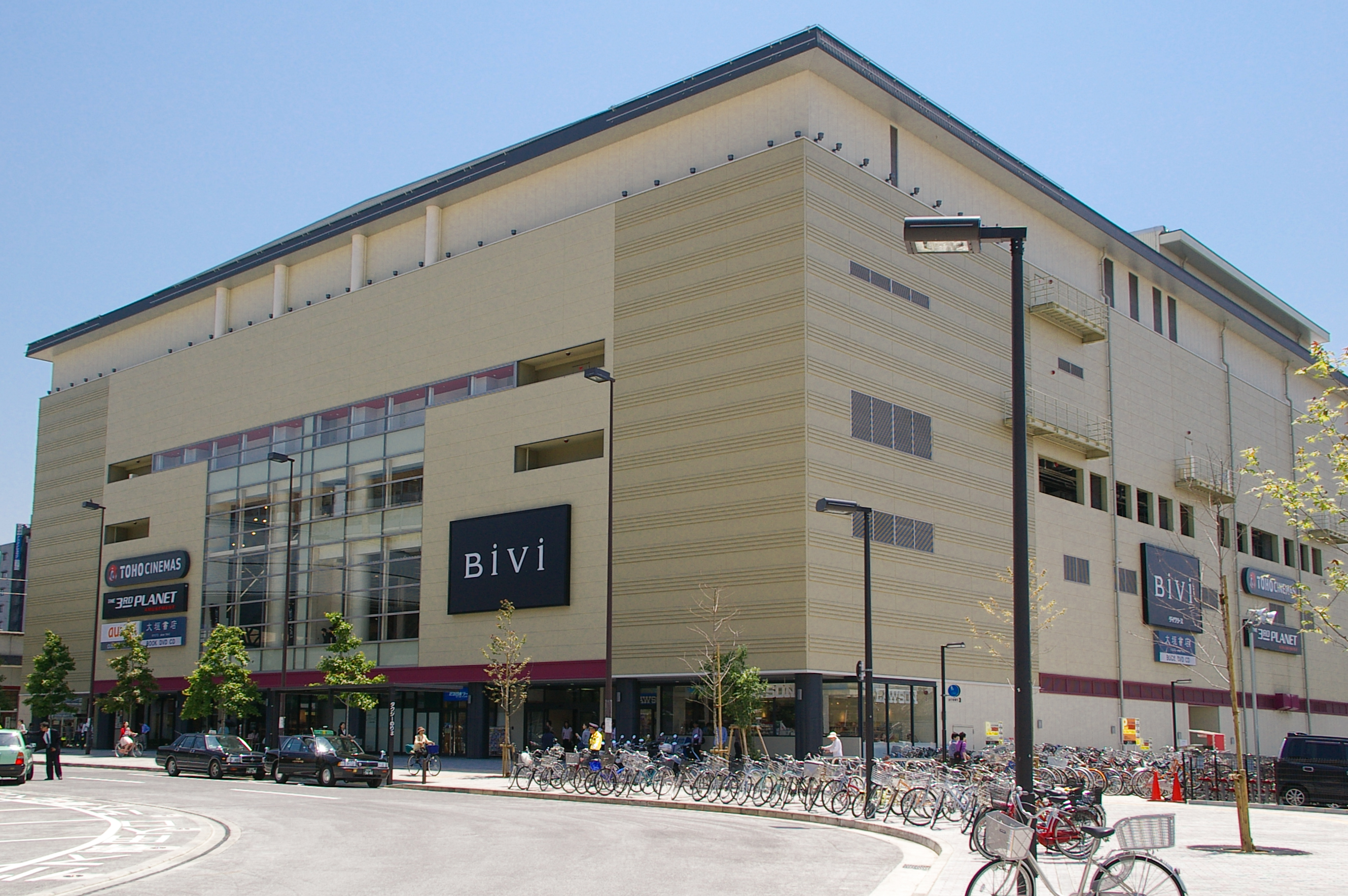 Photograph of Bivi Nijo, commercial complex building in Nakagyo-ku, Kyoto, Kyoto Prefecture, Japan.